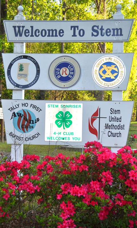 Welcome to Stem sign on NC Hwy 75